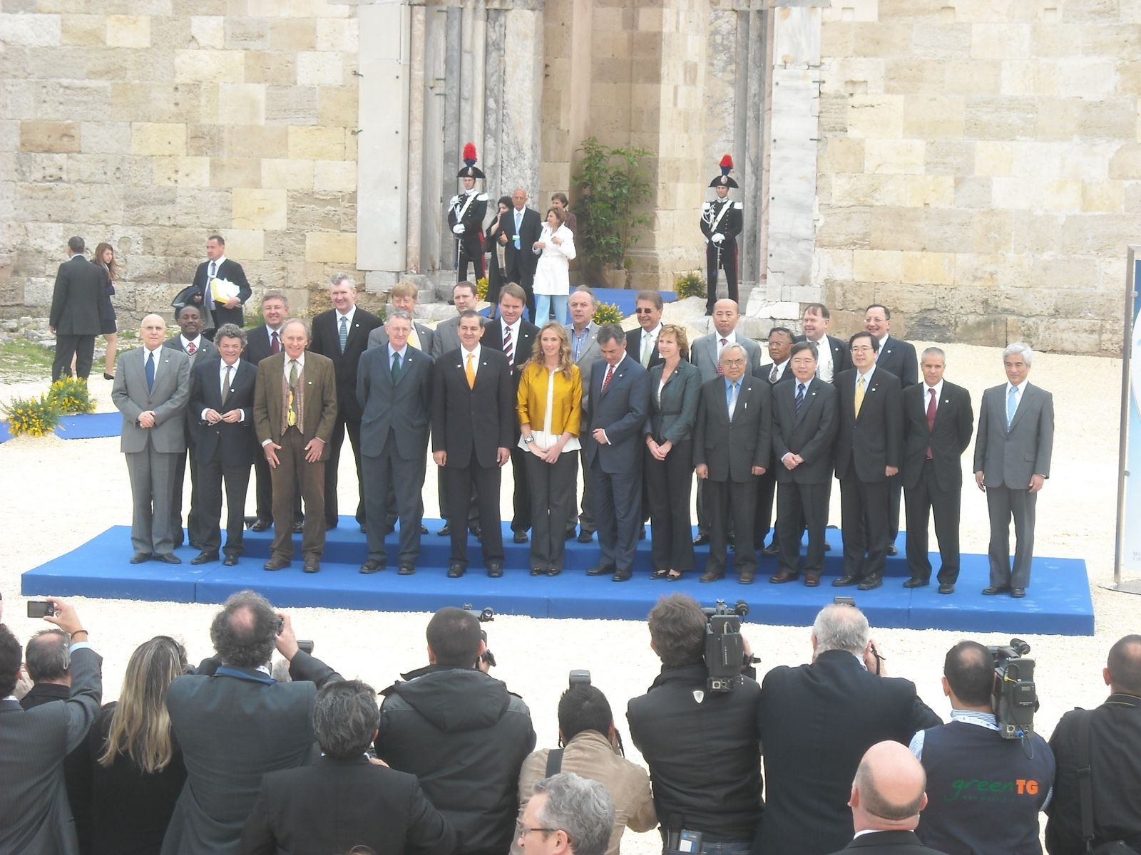 21 ministers of environment participating to G8 environment in Castello Maniace (Siracusa, Italy)